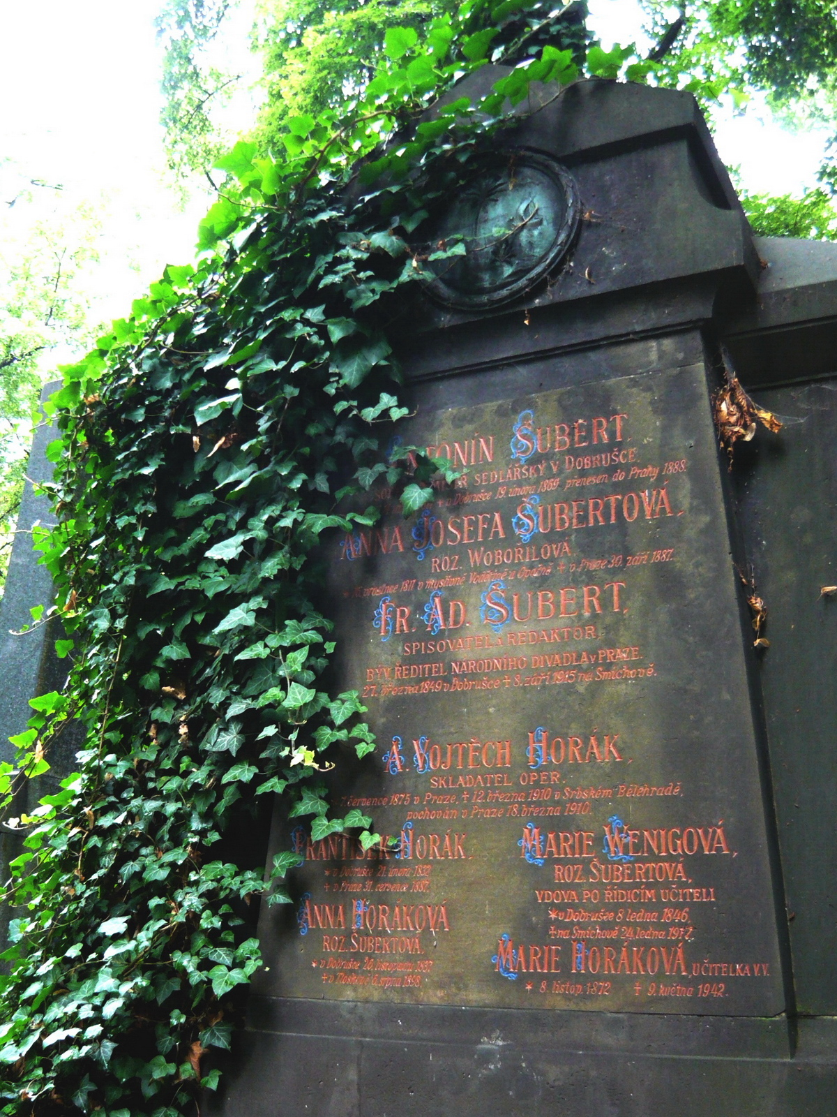 The grave of František Adolf Šubert, Prague, Olšany Cemetery